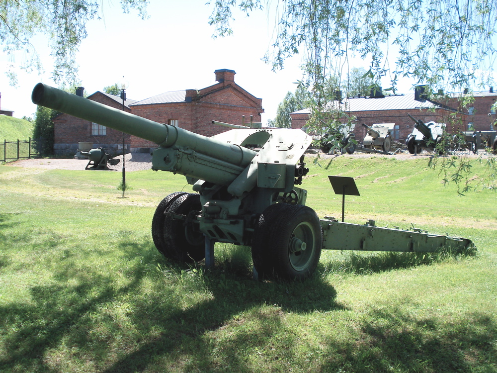 Soviet 152mm mm M-10 Mark 1938 howitzer, displayed in Hämeenlinna Artillery Museum. Photo taken on June 18, 2006. Source: Photo by me, User:Balcer.